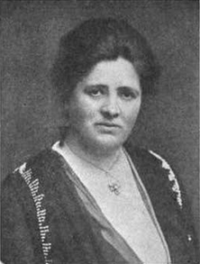 Margaret Winringham, of Louth, from a 1921 publication.